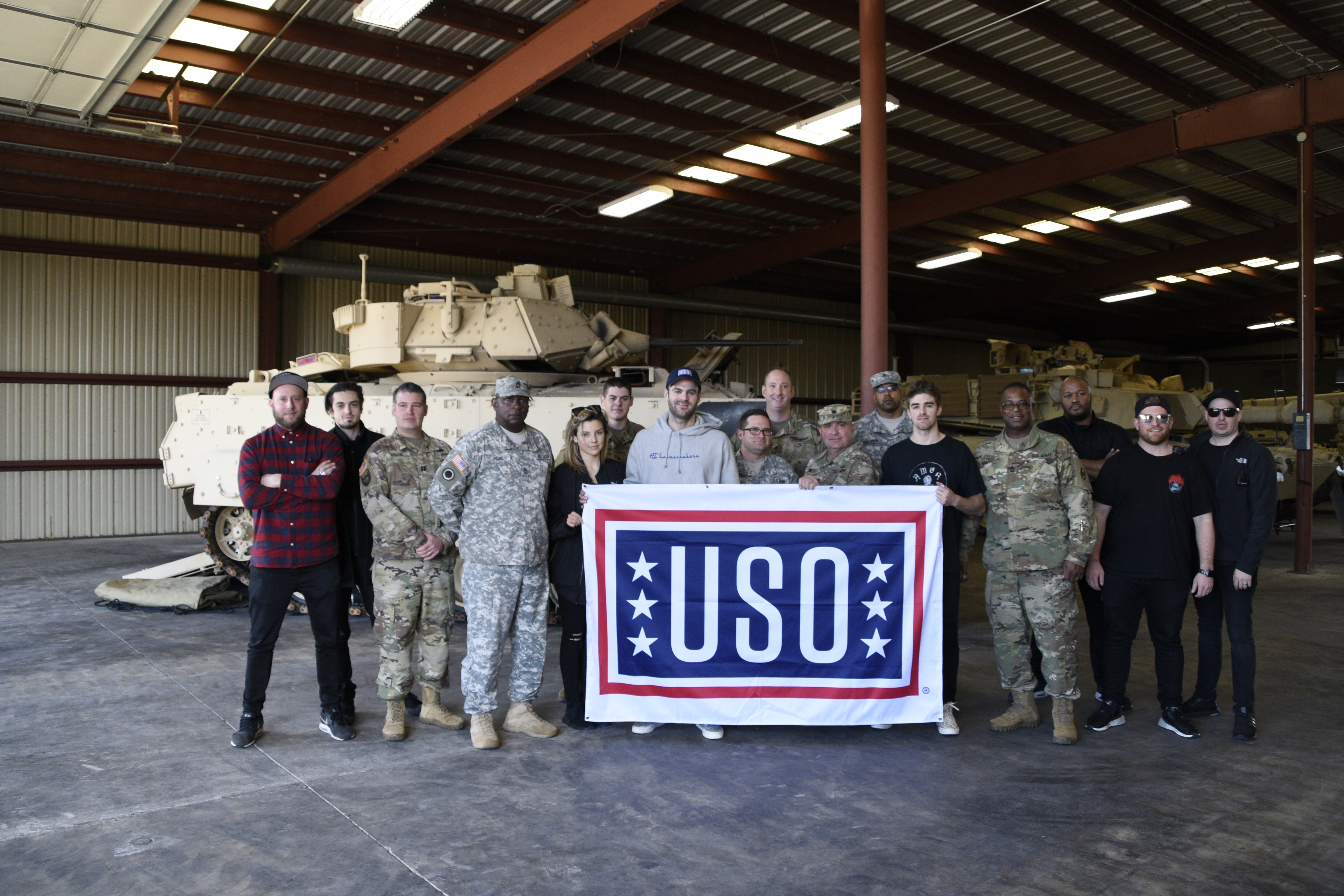 South Carolina National Guard hosts the musical group, The Chainsmokers, on McCrady Training Center, Eastover, S.C. Dec. 19, 2017. The Chainsmokers will perform a concert for Fort Jackson Soldiers who stayed on base during the holiday exodus, but before the show, they toured the base and experienced the SCNG capabilities.